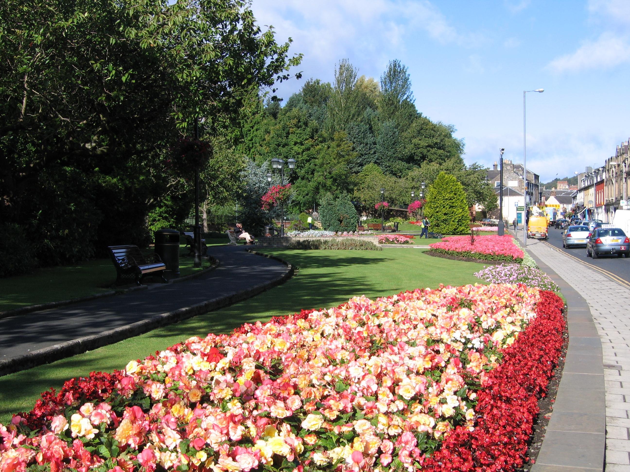 Town centre, Galashiels, Scotland